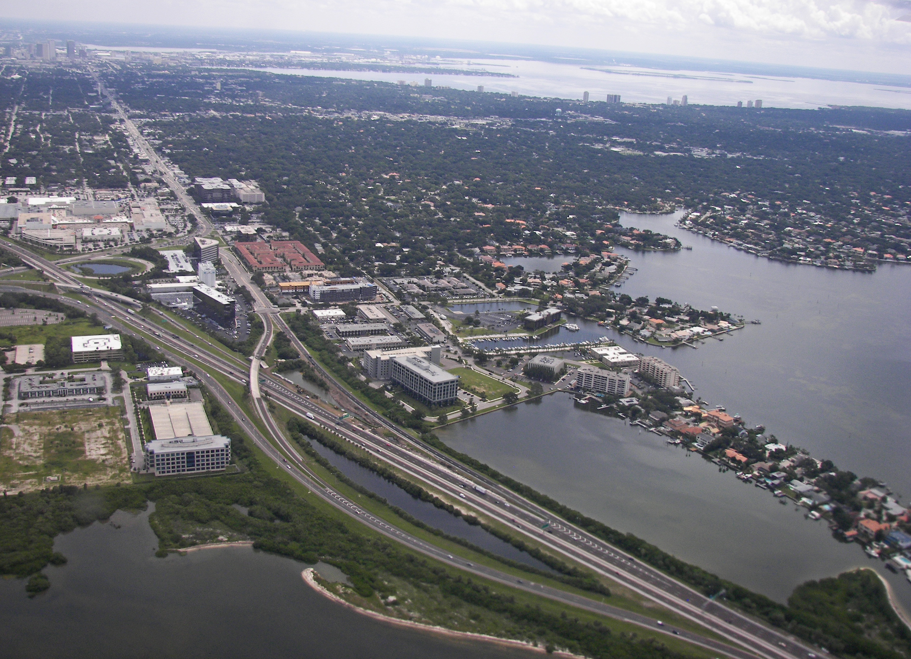 Aerial view of west Tampa, Florida from near the Tampa end of the Howard Frankland Bridge.